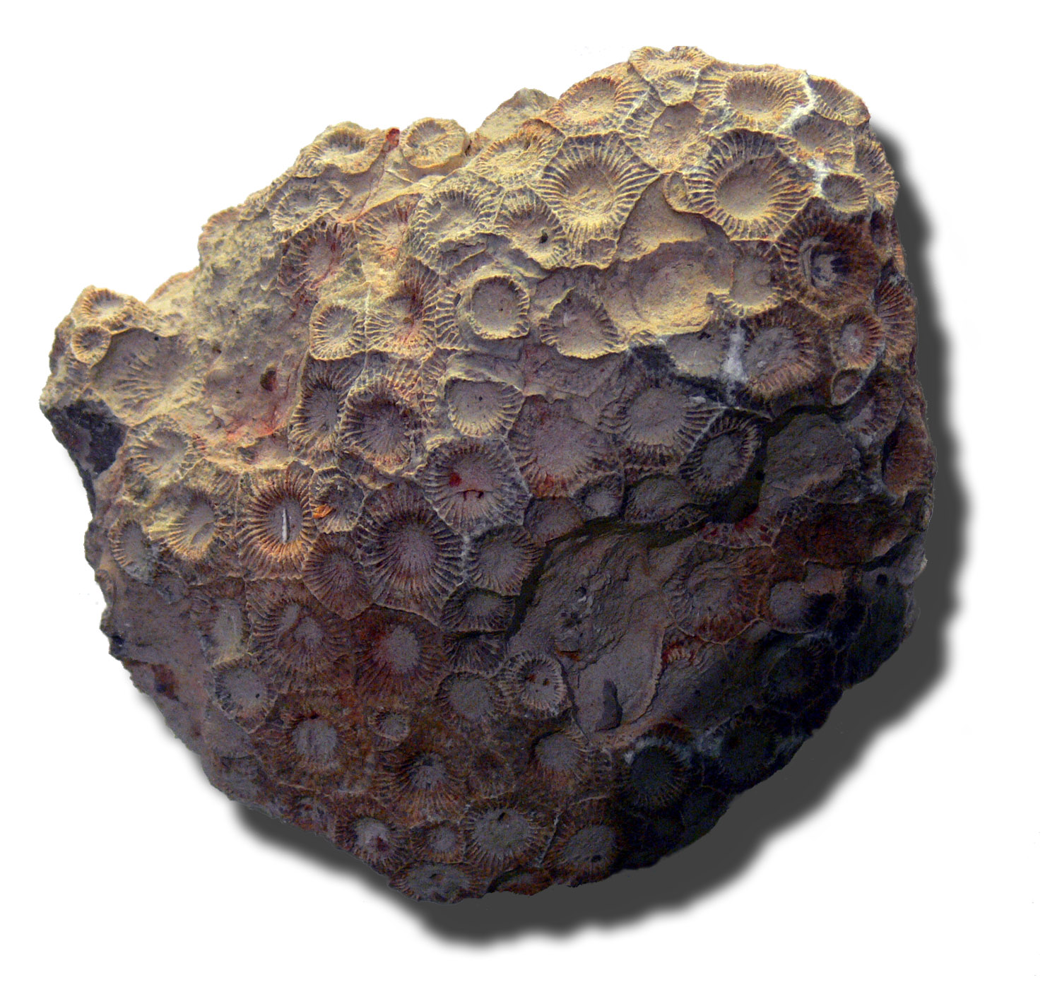 Hexagonaria mirabilis (Natural historical museum of Lille, north of France), Frasnian strata, Denvonian.